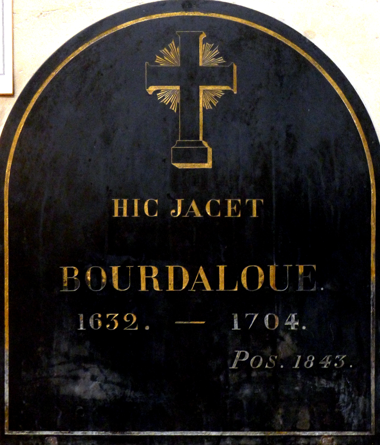 Saint-Paul-Saint-Louis - Paris